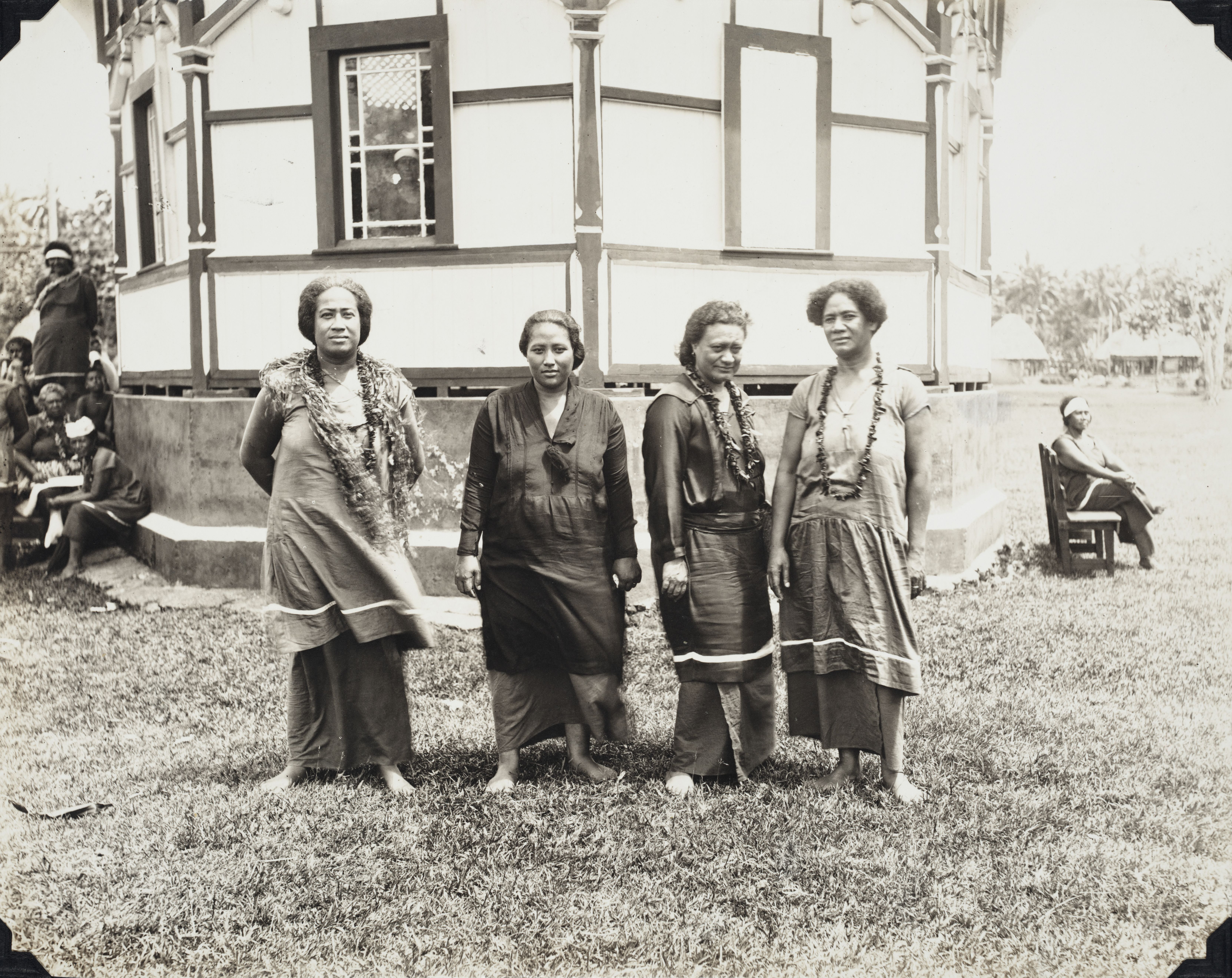 The leaders of the women's Mau; Mrs Tuimaliifano, Mrs Tamasese, Mrs Nelson, Mrs Faumuina, ca 1930. Reference Number: PA1-o-795-05. The leaders of the women's Mau photographed by Alfred James Tattersall.